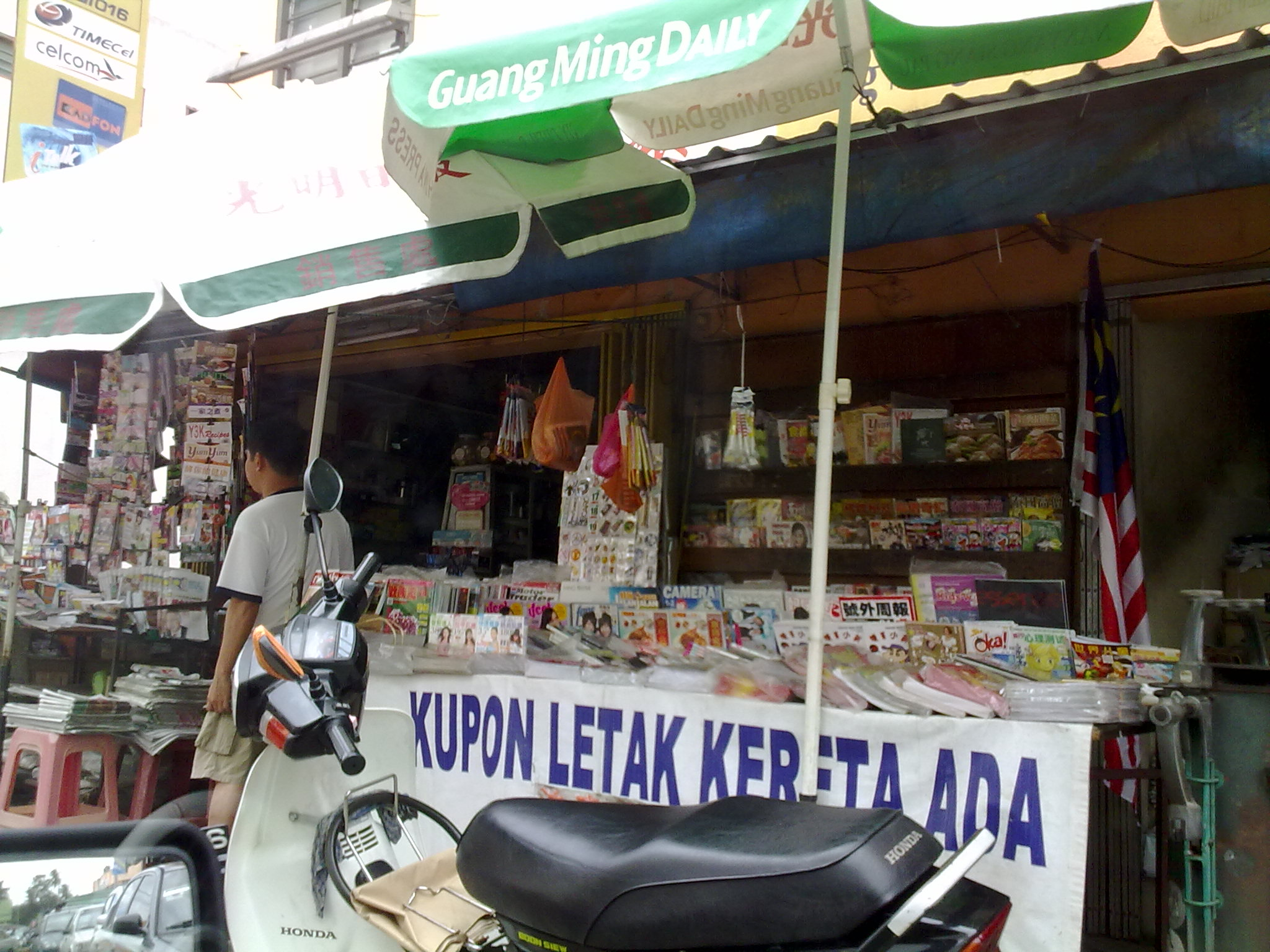 Gerai majalah Bahau